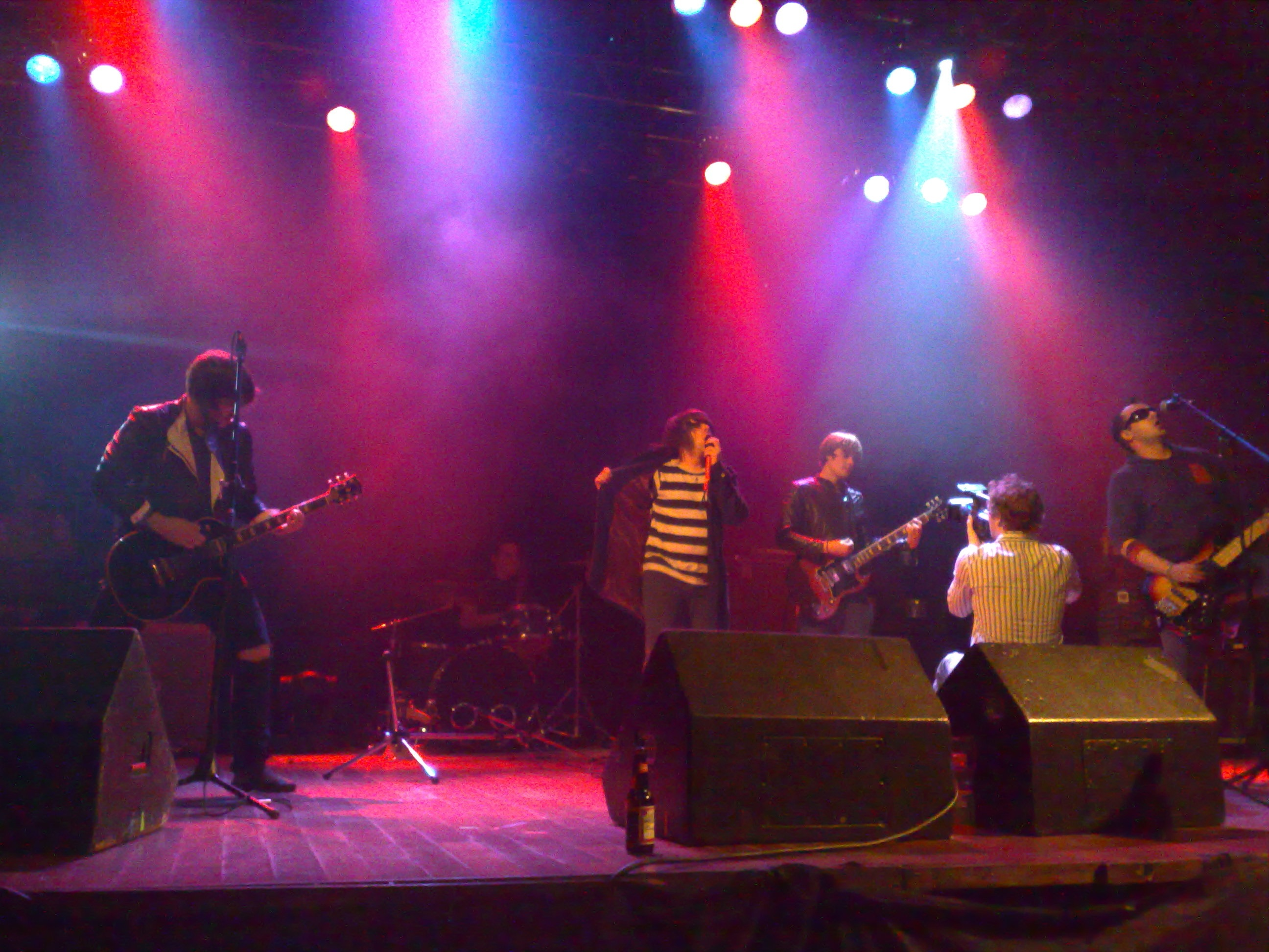 Roulette Band, 2008